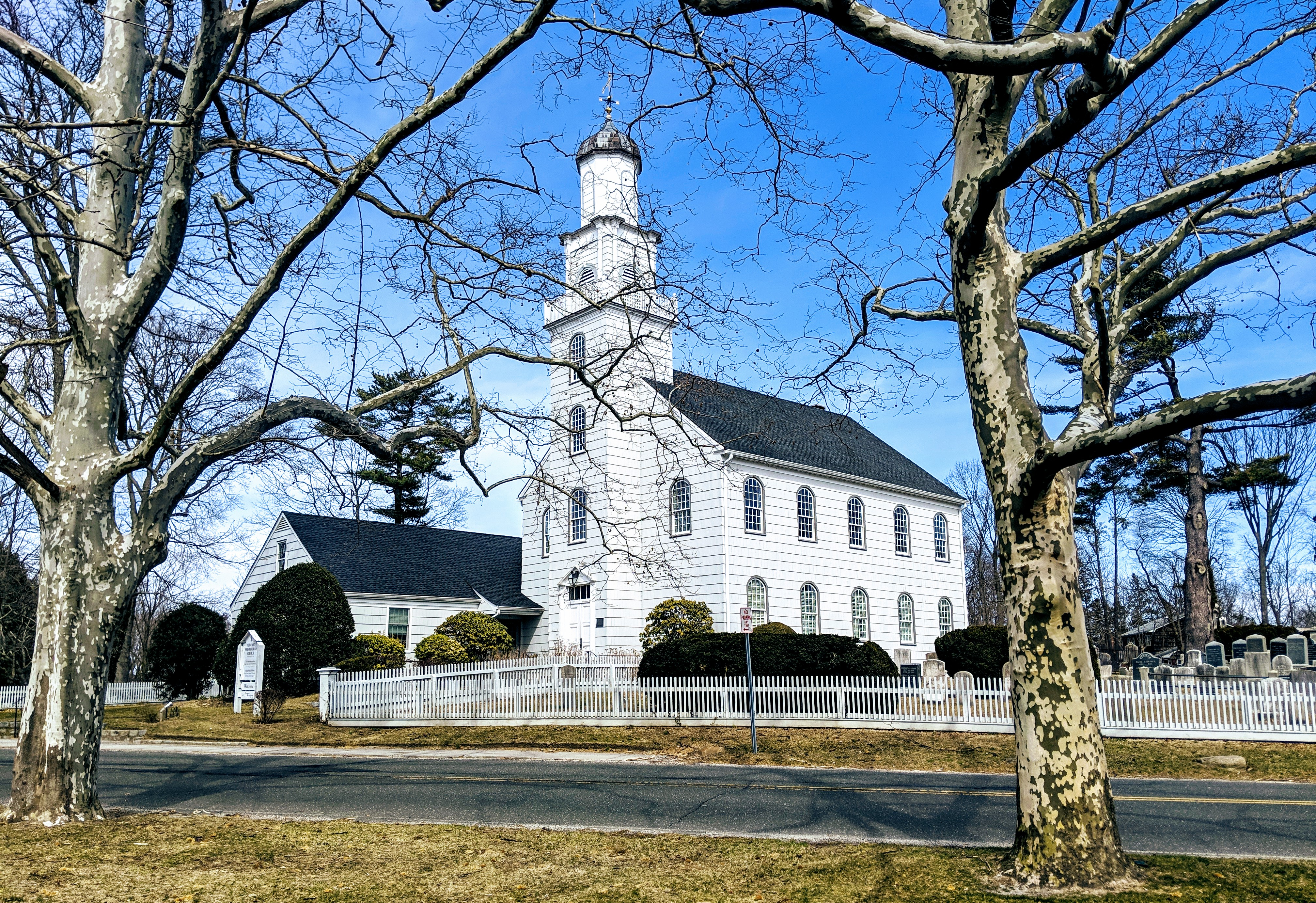 A new building was erected on the site when the original, struck by lightning burned down. The church was built in 1812 in the Federal style.